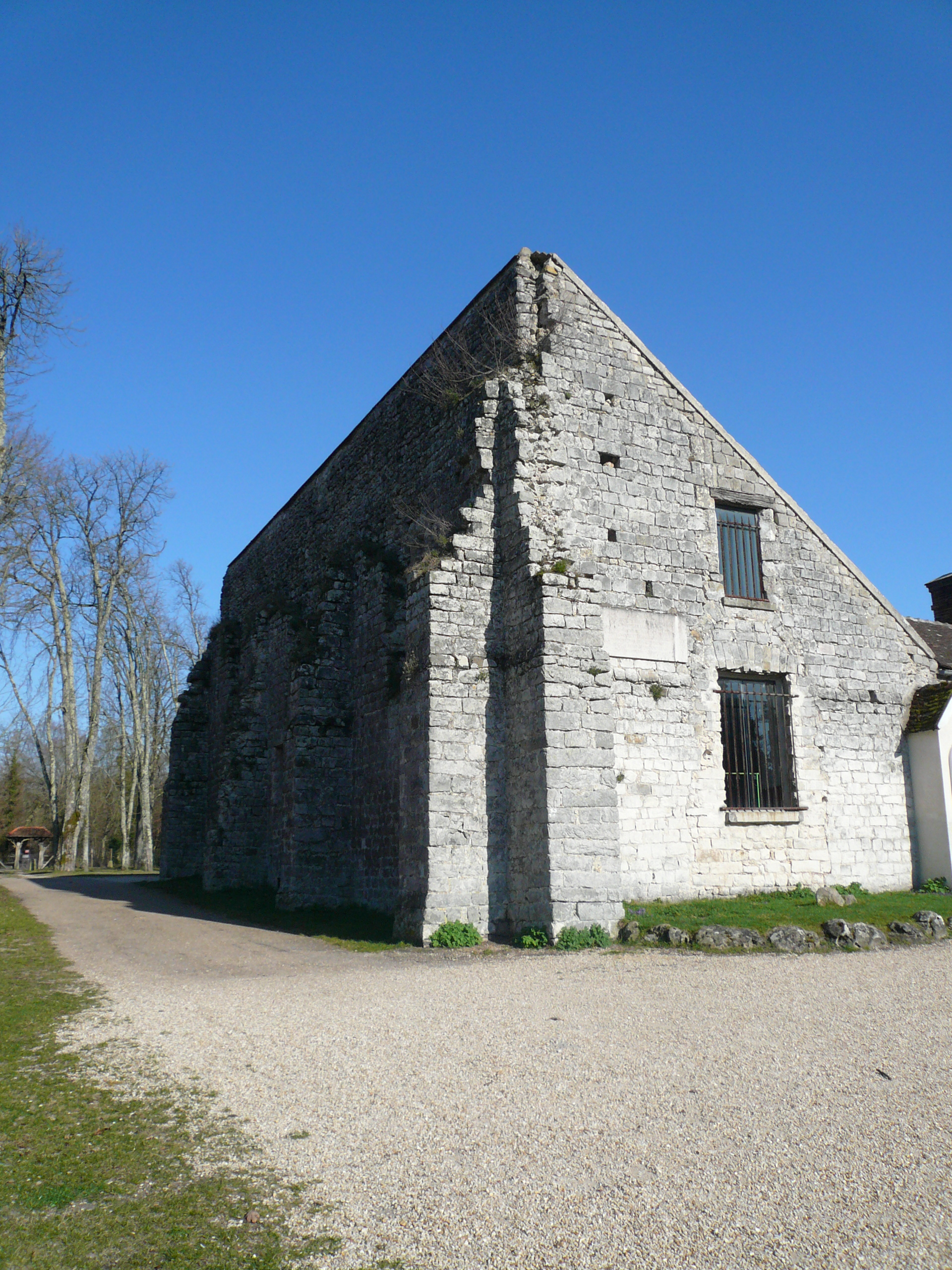 Remains of the ancient Franchard's priory, in the forest of Fontainebleau, Seine-et-Marne, Île-de-France, France.